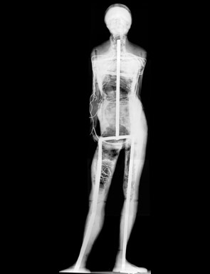 Radiograph, overall frontal view of Little Dancer Aged Fourteenby Edgar Degas